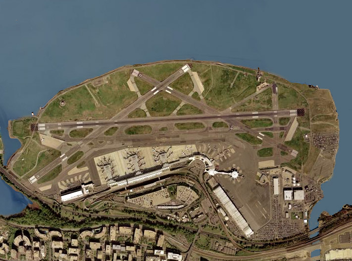 Aerial photo of Ronald Reagan Washington National Airport in Arlington County, Virginia, United States.